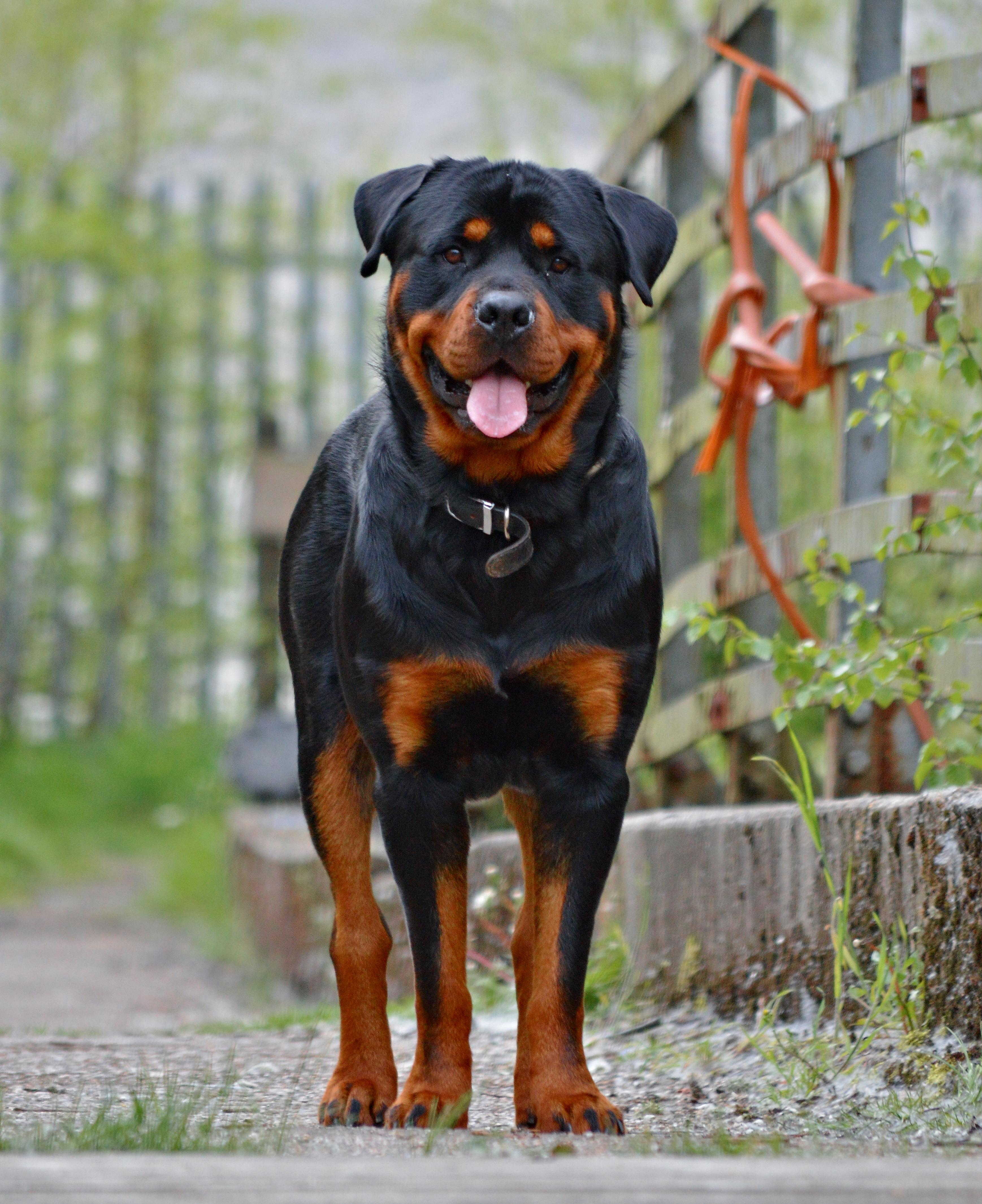 "Prince"